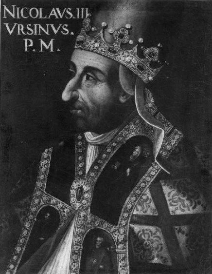 Portrait of pope Nicholas III in the Pinacoteca Ambrosiana, Milan